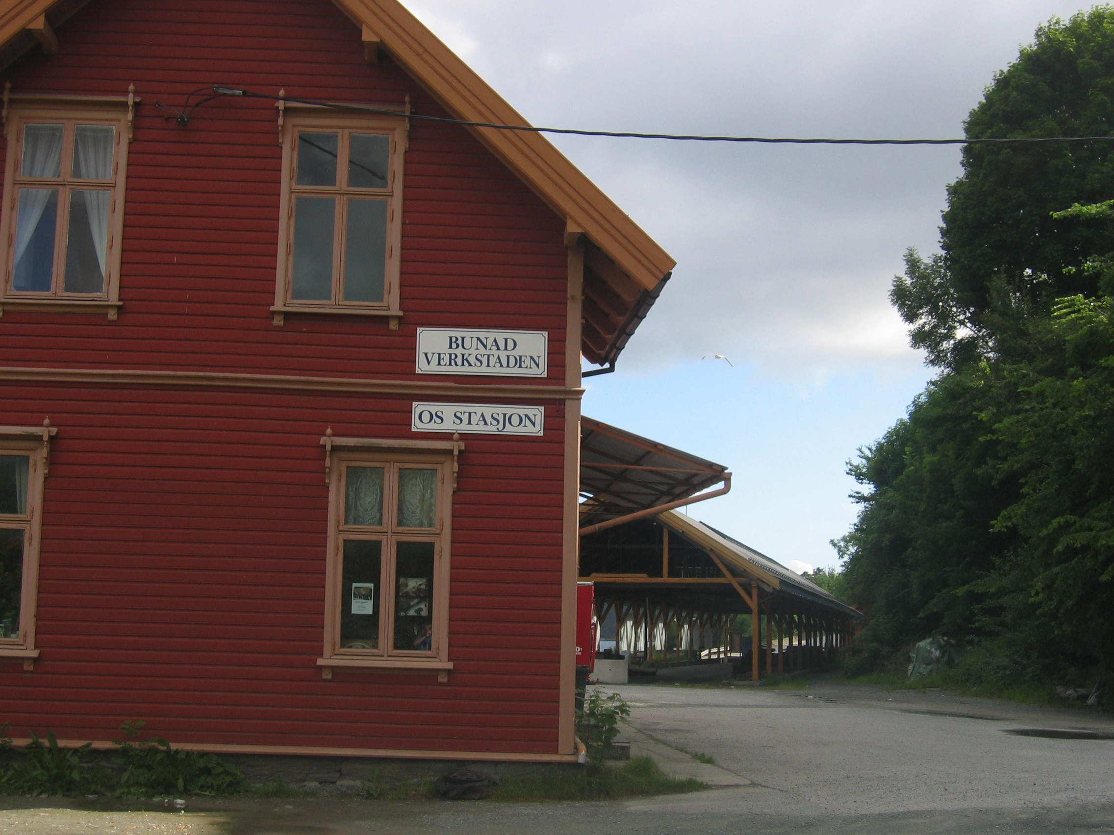 Picture of the original Osbanen terminus closed in 1934.